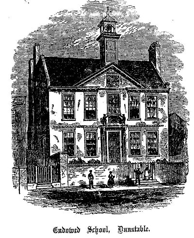 William Chew's house, on High Street South in Dunstable, Bedfordshire, England, UK, which was used as a school. Chew died unmarried in March 1712 or 1713, and left an estate worth £28,000 which was inherited by his sisters Mrs. Frances Ashton and Mrs. Jane Cart, and by Thomas Aynscombe, the son of his sister Elizabeth. Prior to his death Chew had declared an intention to build a schoolhouse in Dunstable and to endow it to pay for the master's salary and the teaching of 40 poor boys. However, as he died intestate, it was his heirs who carried out his wishes. The schoolhouse was built in 1715, and by settlements made in 1724 and 1727 the school was endowed with the income of certain farms amounting to £150 each year. Renamed Chew's Foundation School in 1880, the school continued to operate until 1905. The house is now used as church offices.